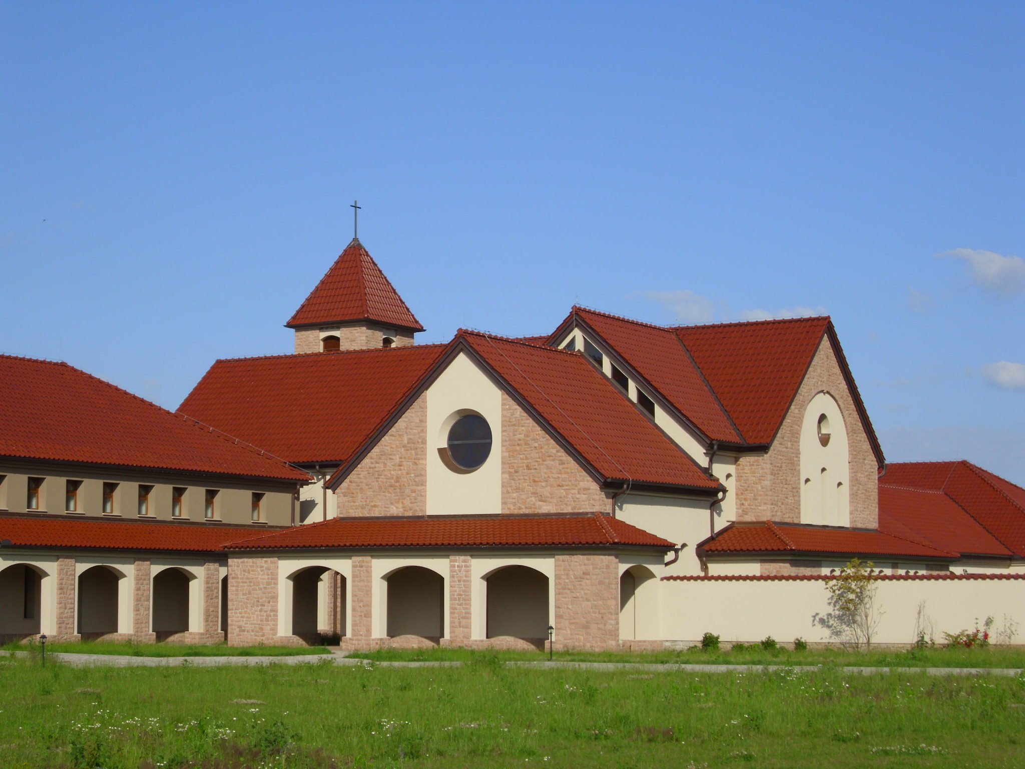 Church of Our Lady, Mother of Christian Unity, in Trappist Monastery of Our Lady upon Vltava (Poličany village, Benešov District, Central Bohemian Region, Czech Republic)